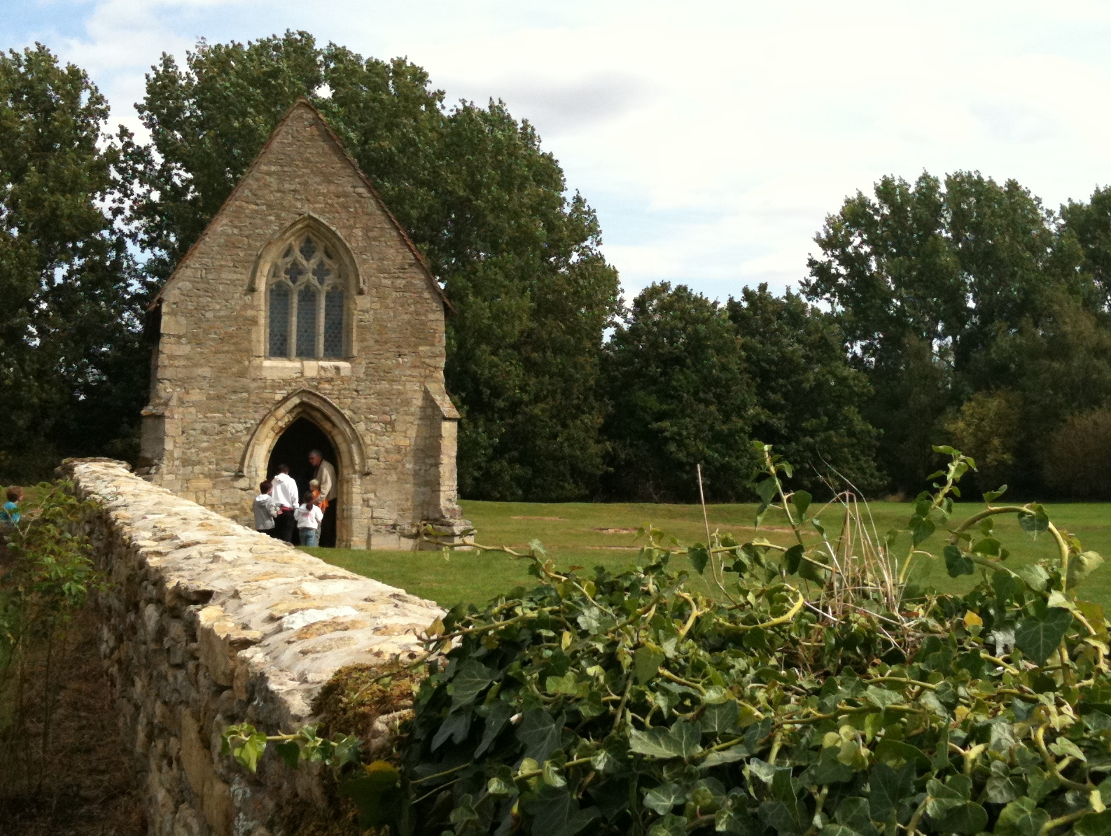 Chapel of the former Benedictine Priory of Our Lady, Bradwell Abbey, Buckinghamshire, England